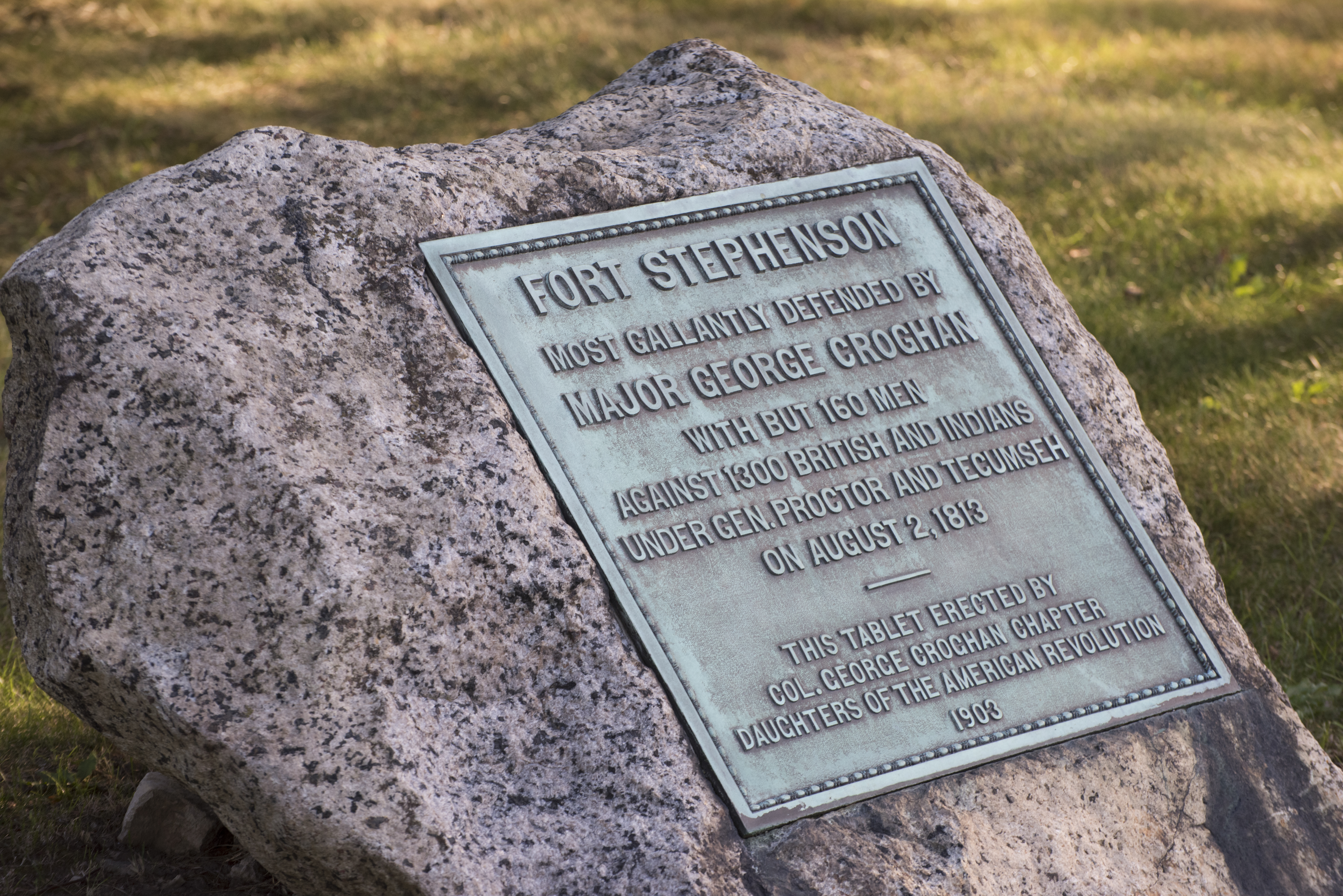 Fort Stephenson Marker C. 1902; Fort Stephenson, Fremont, Ohio